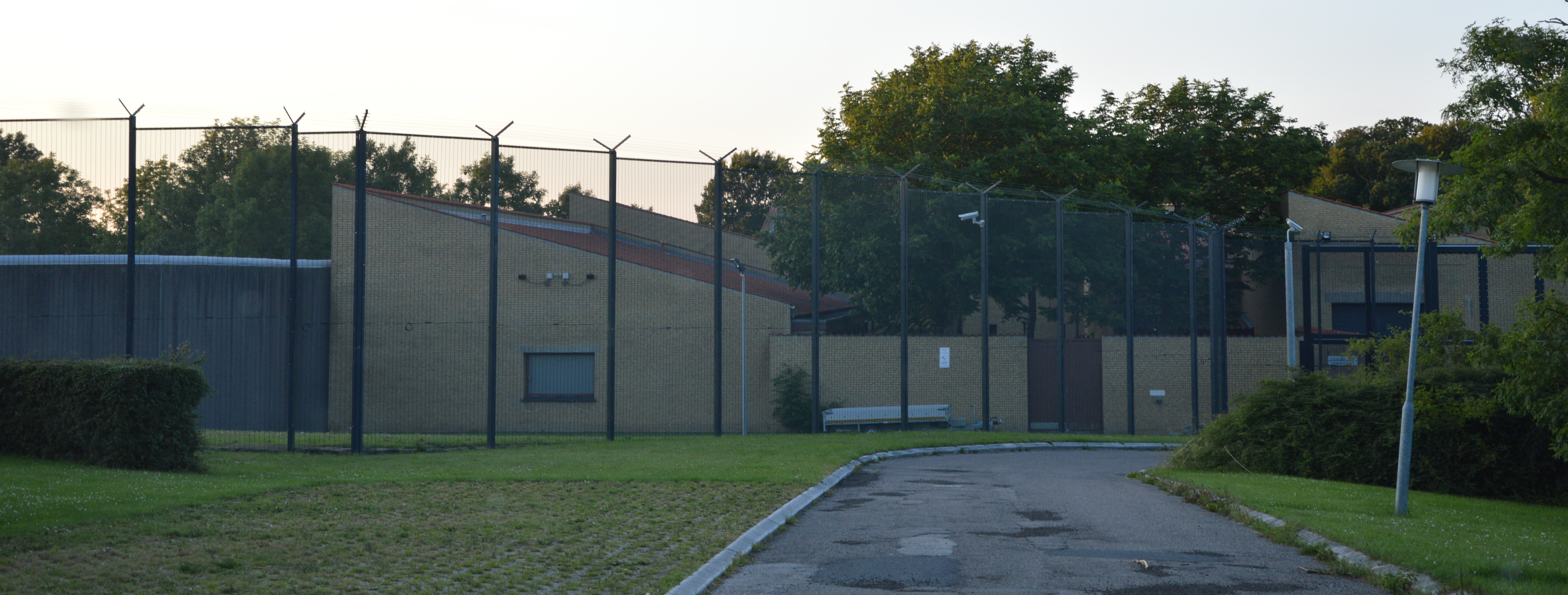 Nykoebing Prison in Nykøbing Sjælland, Denmark is a former psychiatric prison called Enggaarden since 1981. Since 2018 it has been a "normal" prison for non-psychiatric prisoners.